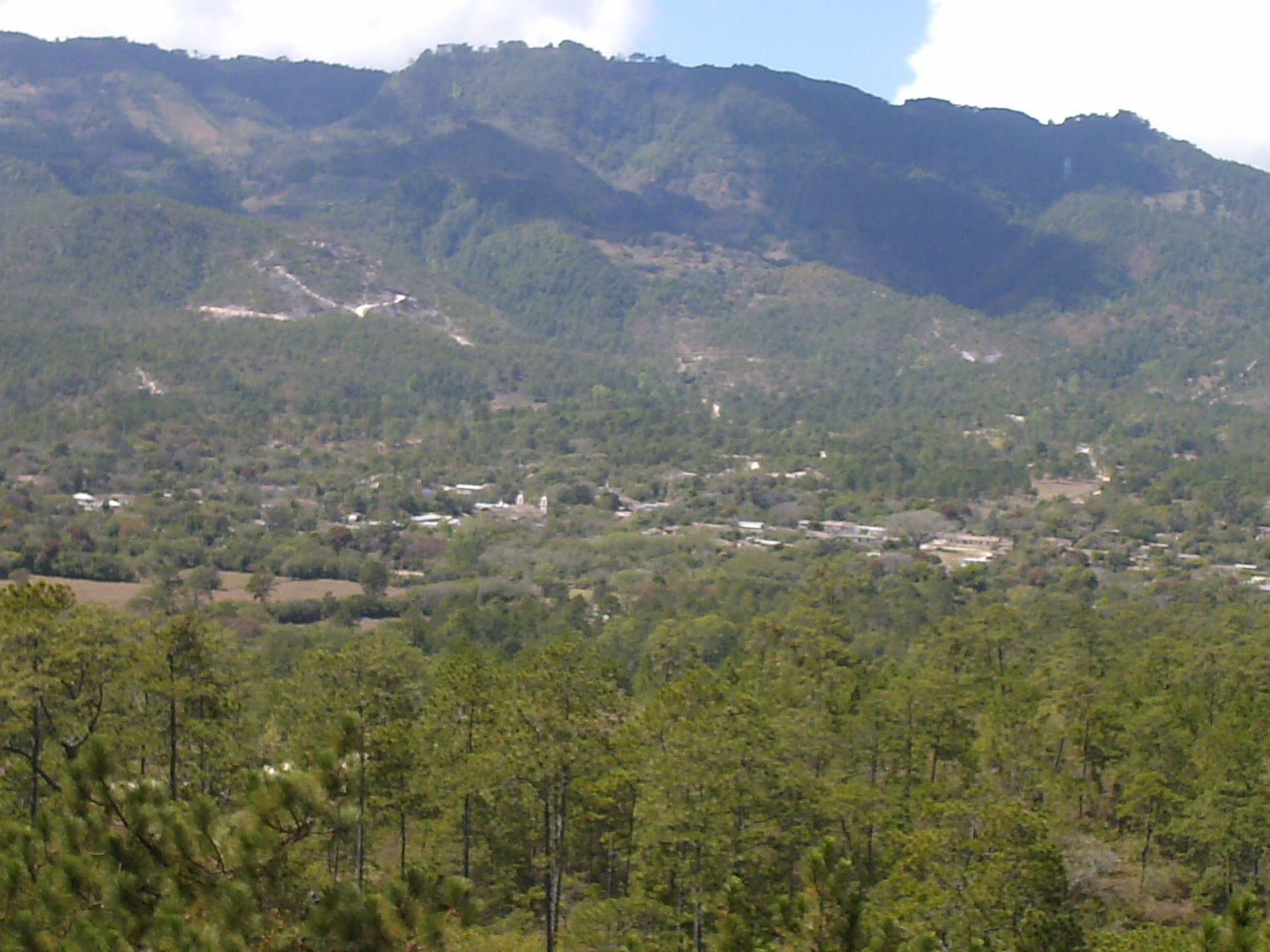 Erandique, municipality in the Honduran department of Lempira.